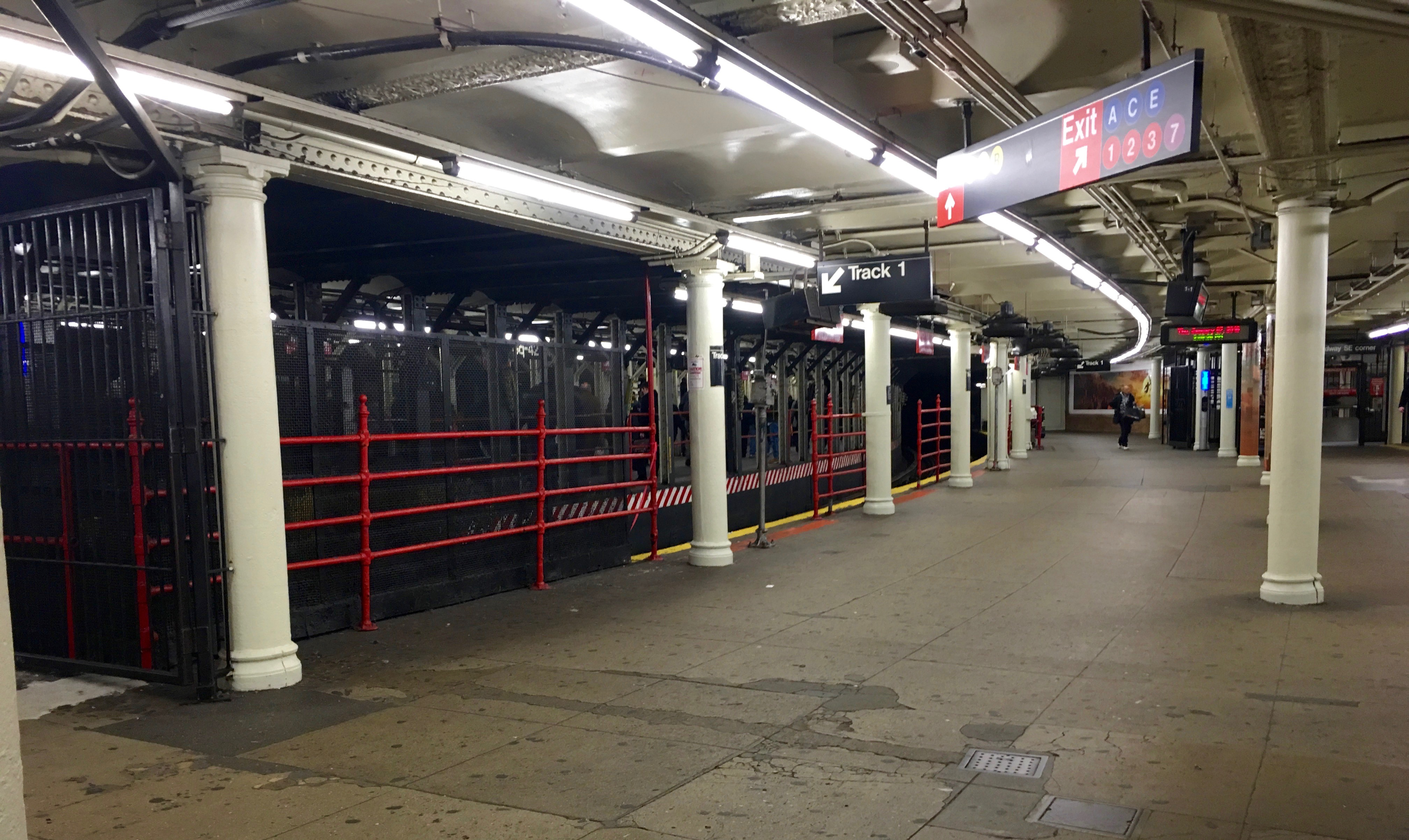 Shuttle track 1 and platform at Times Square - 42nd Street on the S.